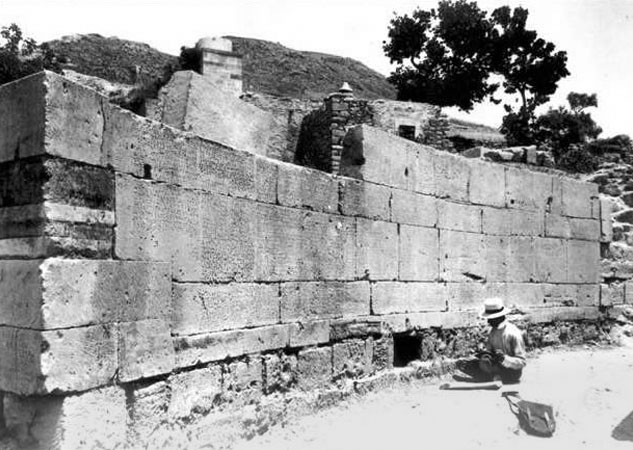 Archeologist Federico Halbherr (1857-1930) at Gortyn, deciphering Gortys law code, probably before c. 1900 (as of 1900, he was involved in other excavations).